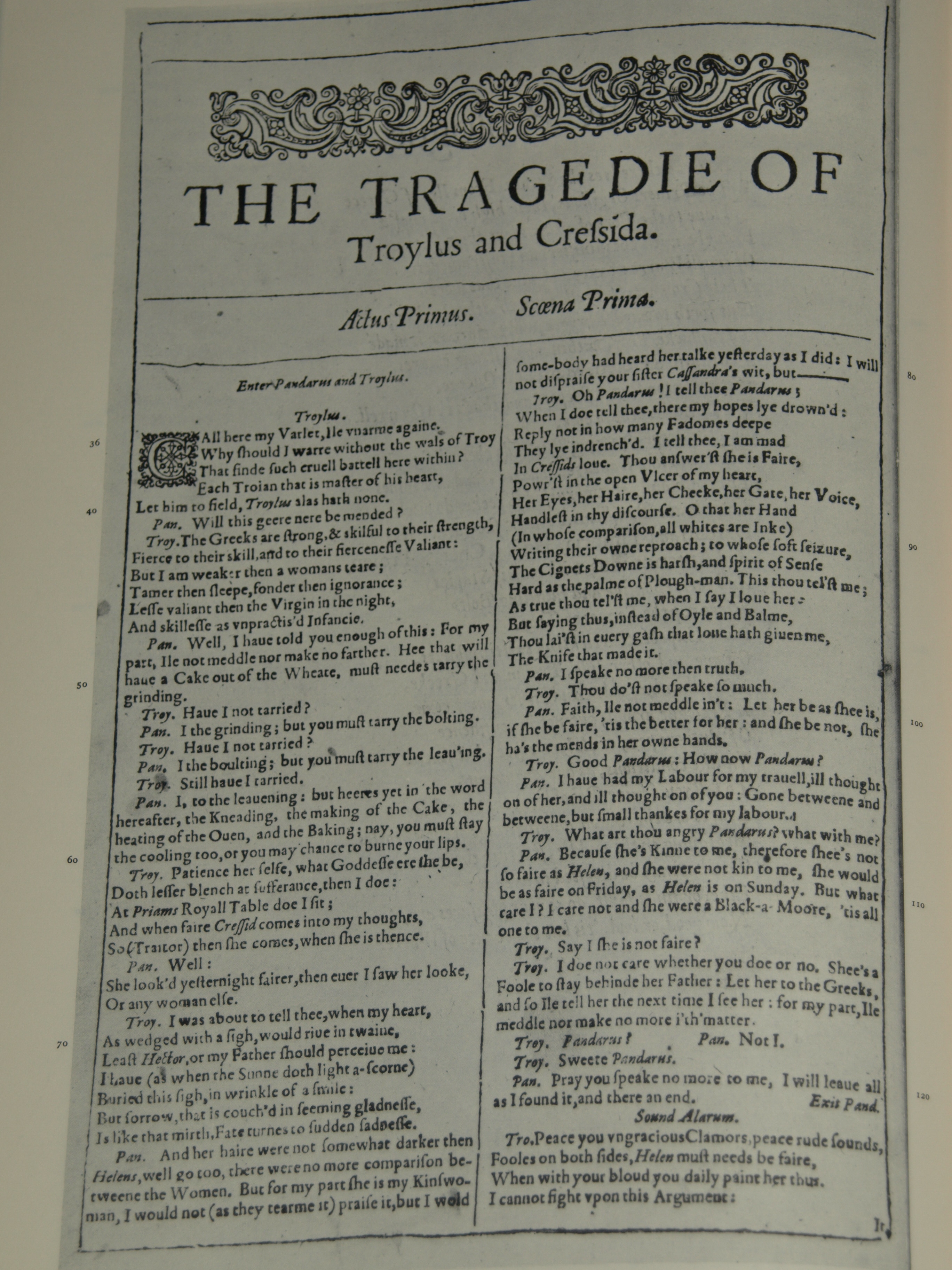 Photo of the first page of Troilus and Cressida from a facsimile edition of the First Folio of Shakespeare's plays, published in 1623